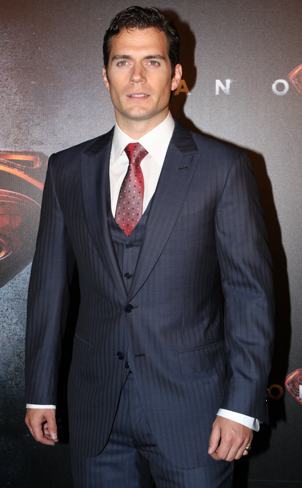 Henry Cavill at the Man Of Steel red carpet movie premiere, Sydney 2013.